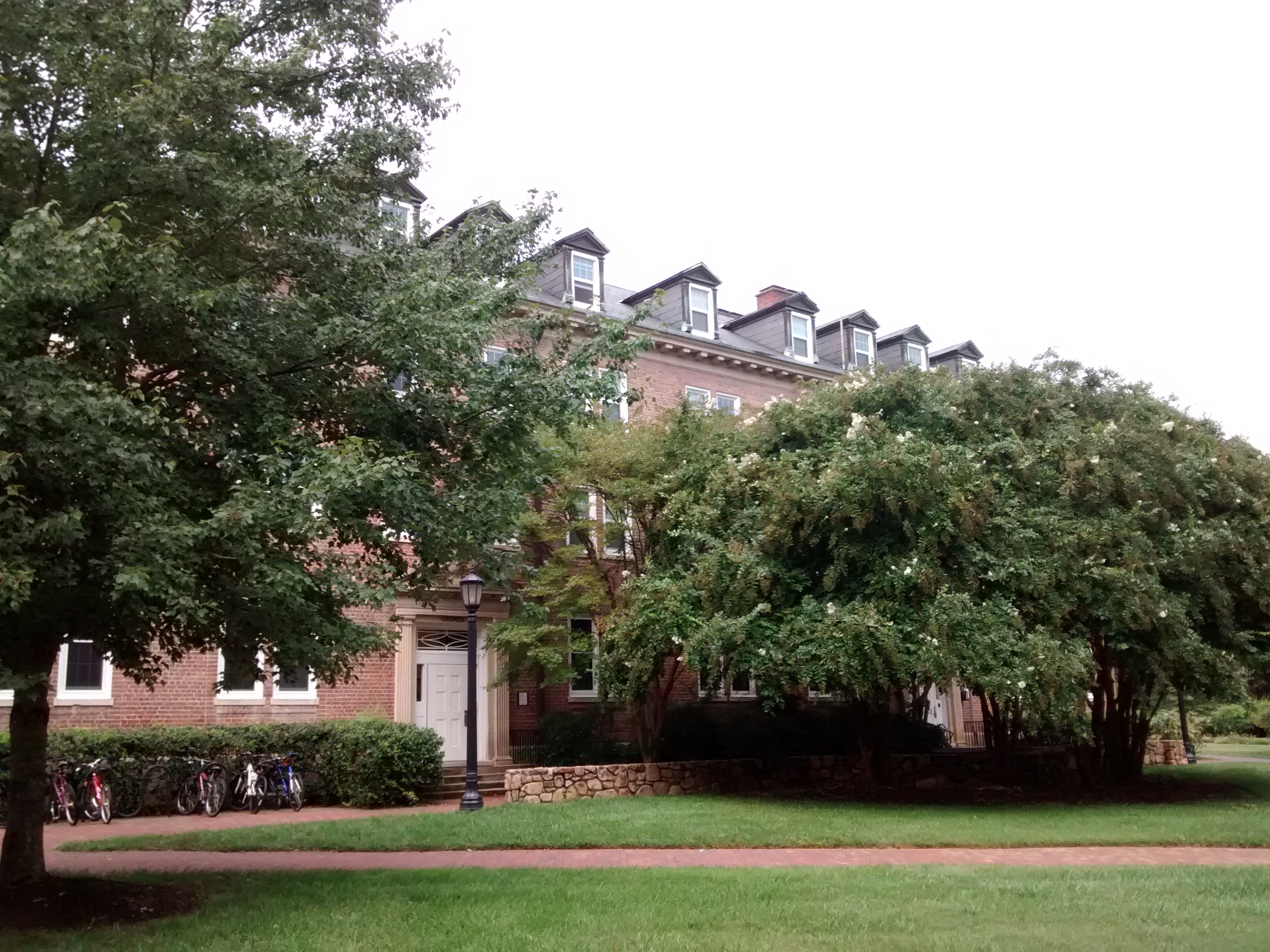 Grimes Residence Hall at the University of North Carolina at Chapel Hill.